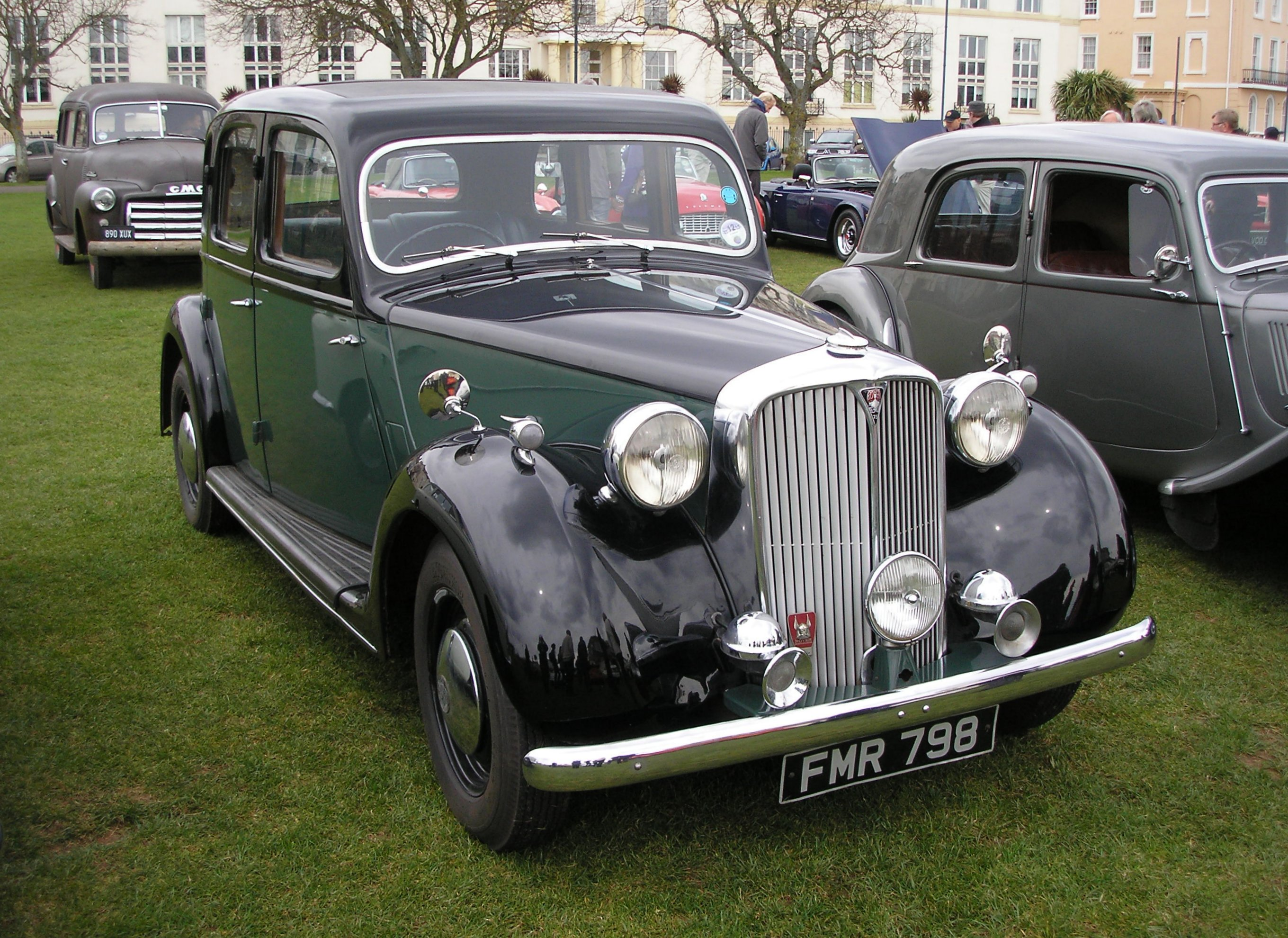 1948 Rover 75 6-light saloon (DVLA) first registered 30 November 1948 A car rally to celebrate the festival of St. George, on the Den at Teignmouth. Sunday 21st April 2013. Camera: Olympus FE-120 6.0 Digital.